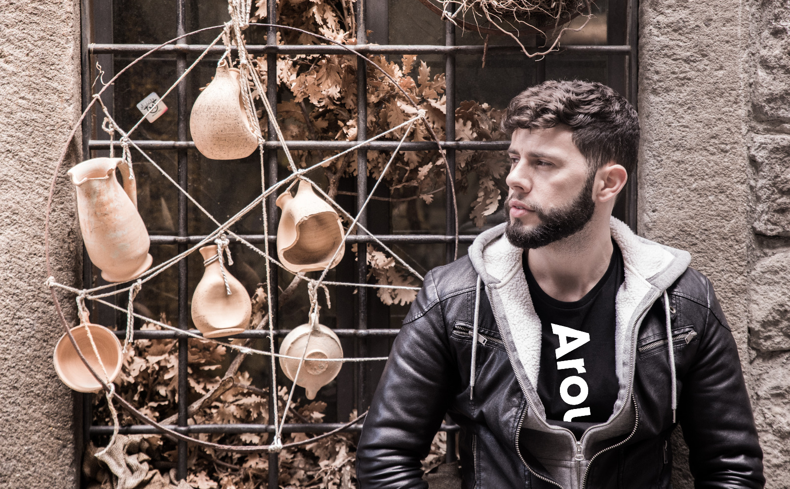 Actor Angelo Misseri for Aroundly (Viterbo)